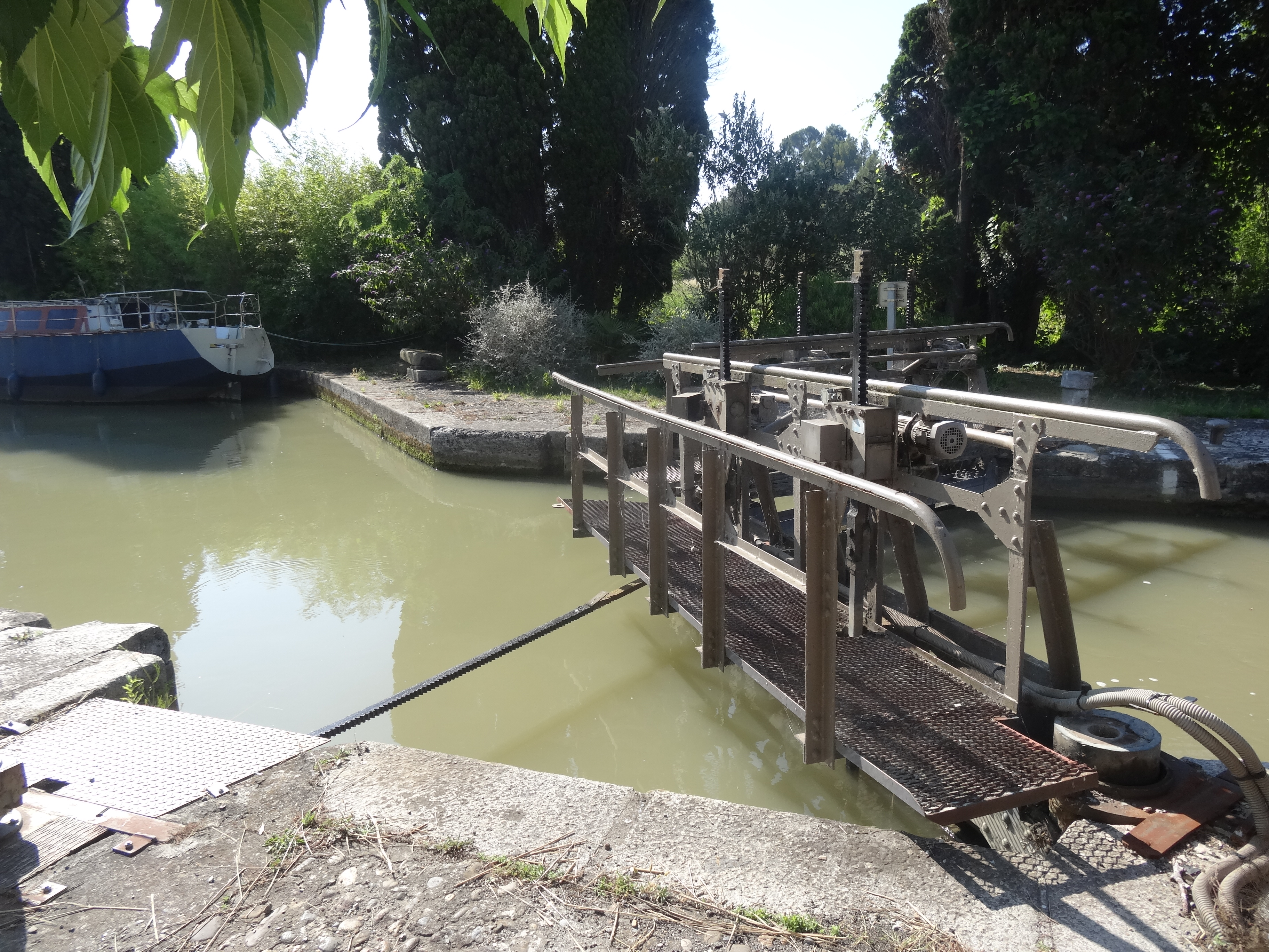 Écluse de Villedubert - Canal du Midi